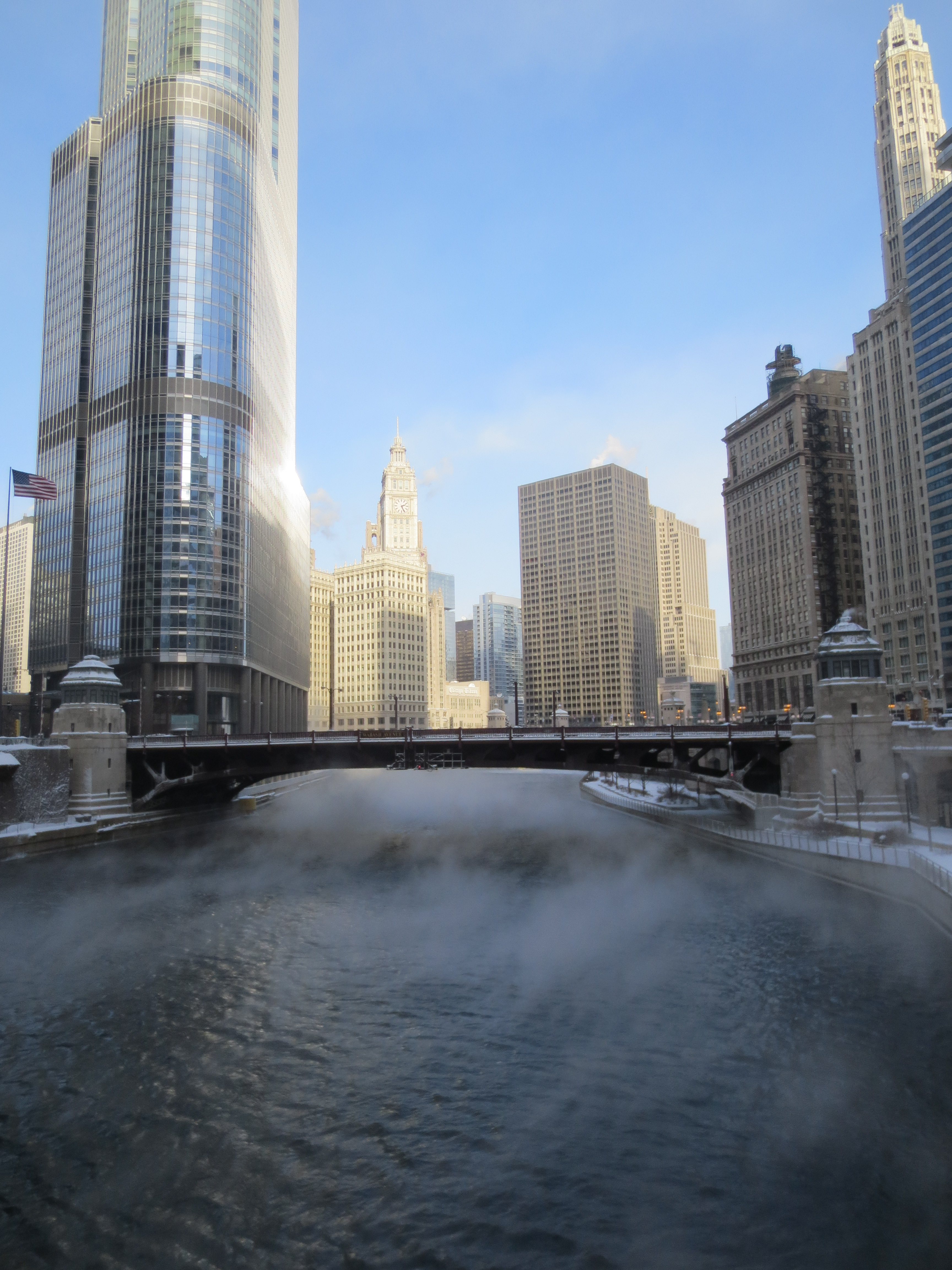 Steam Rising from Chicago River